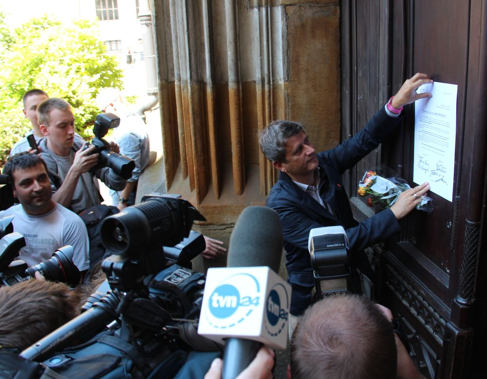 Polish politician Janusz Palikot declares his apostasy in Cracow, Poland.